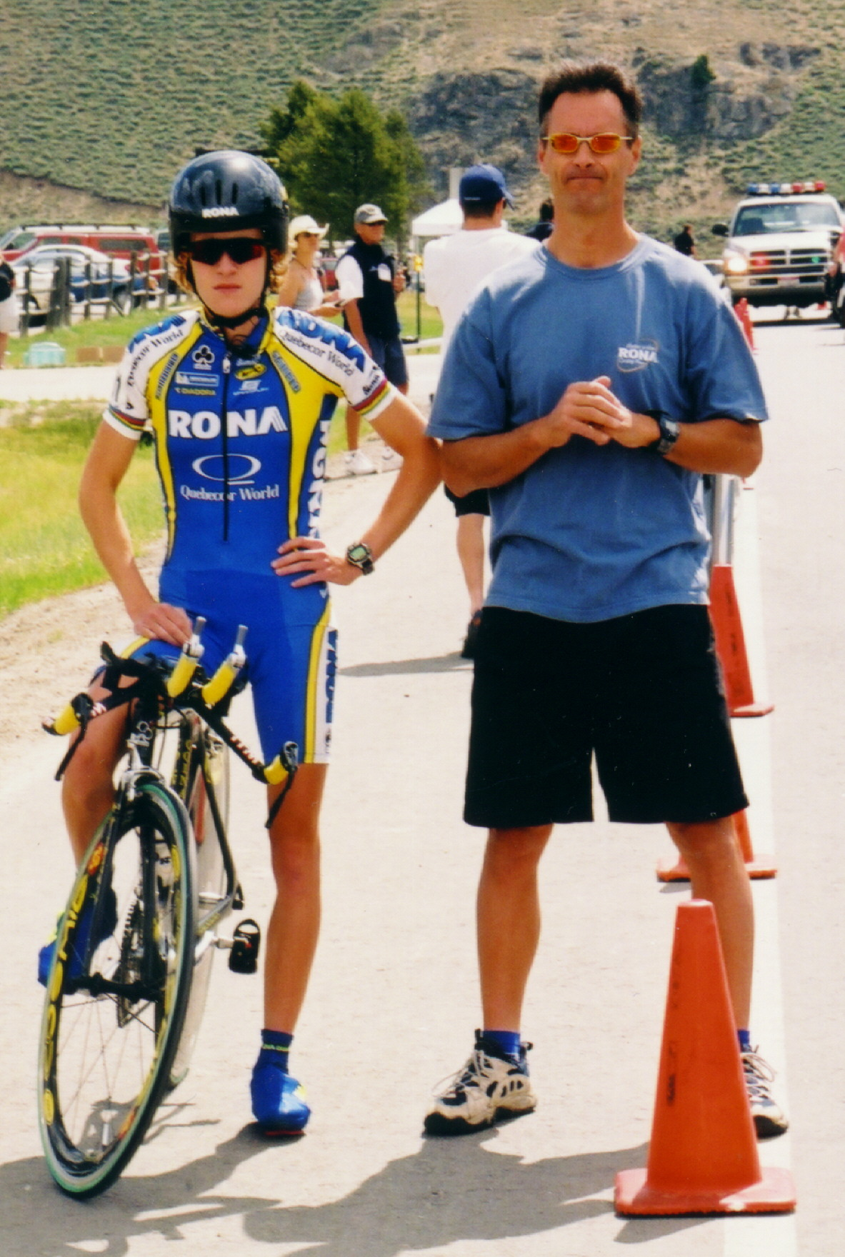 Geneviève Jeanson and Andre Aubut prior to the start of Jeanson's turn in the Stanley Time Trial, stage 3 of the 2002 Women's Challenge bicycle stage race.